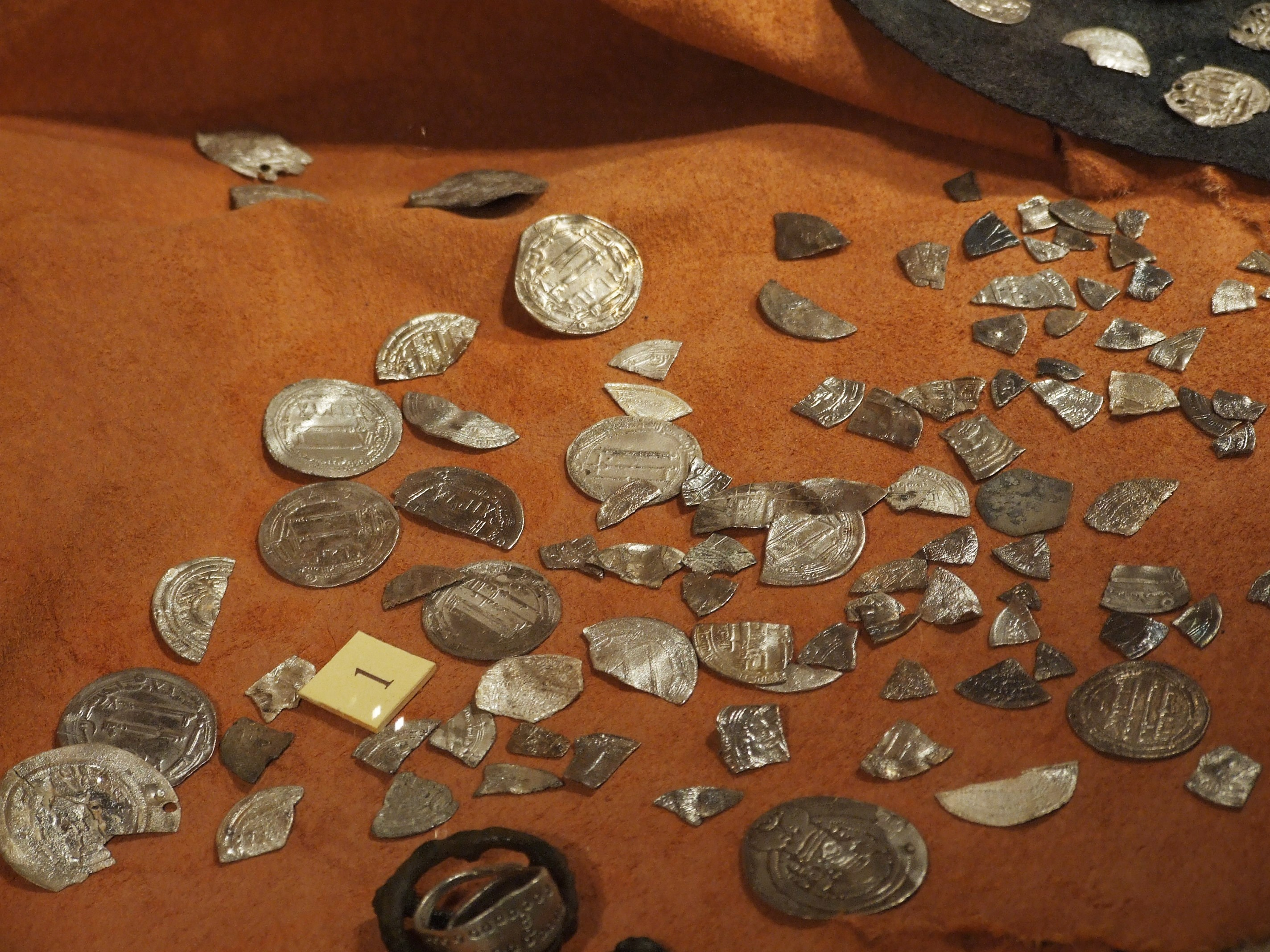 Silver arabian coins found in the vicinity of polish baltic coast in first centuries CE - part of the permanent exhibition of the city museum in Elbląg, Poland